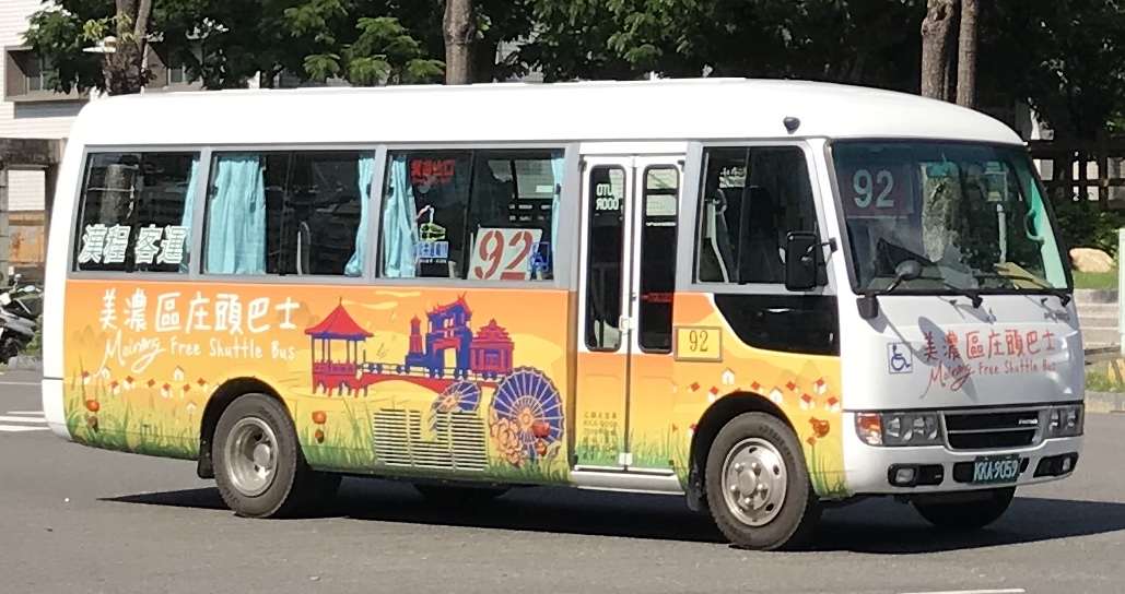 Fuso Rosa bus KKA-9059 of Han-Cheng Bus Traffic.